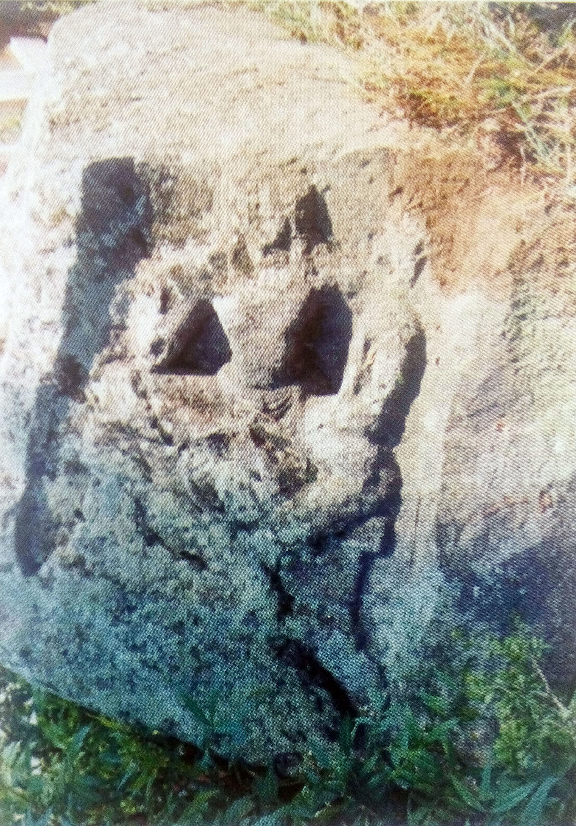 Buddhist Rock Carvings in Manglawar